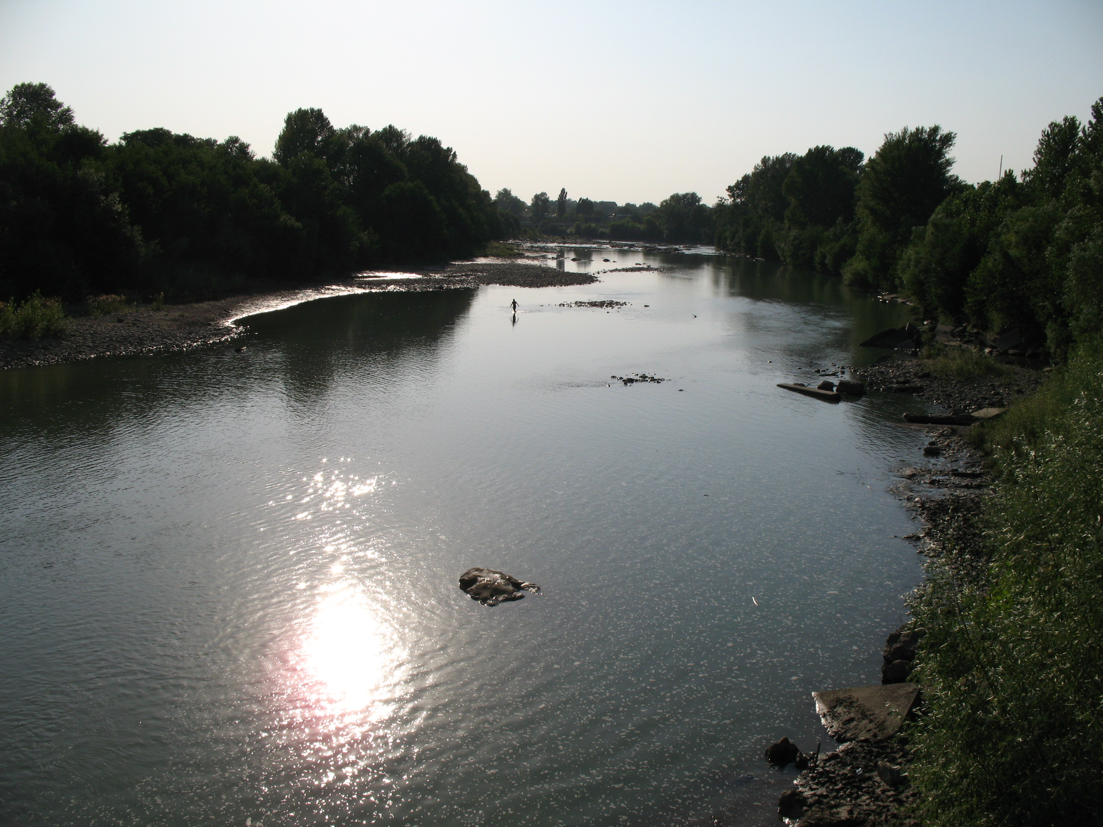 River Belaya in Maykop.